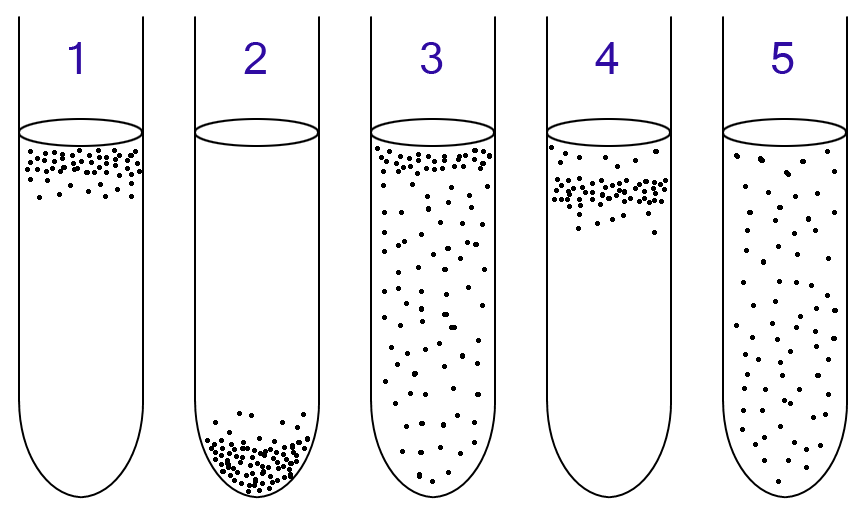 Aerobically different bacteria behave differently when grown in liquid culture: Obligate aerobic bacteria gather at the top of the test tube in order to absorb maximal amount of oxygen. Obligate anaerobic bacteria gather at the bottom to avoid oxygen. Facultative bacteria gather mostly at the top, since aerobic respiration is advantageous (ie, energetically favorable); but as lack of oxygen does not hurt them, they can be found all along the test tube. Microaerophiles gather at the upper part of the test tube but not at the top. They require oxygen, but at a lower concentration. Aerotolerant bacteria are not affected at all by oxygen, and they are evenly spread along the test tube.